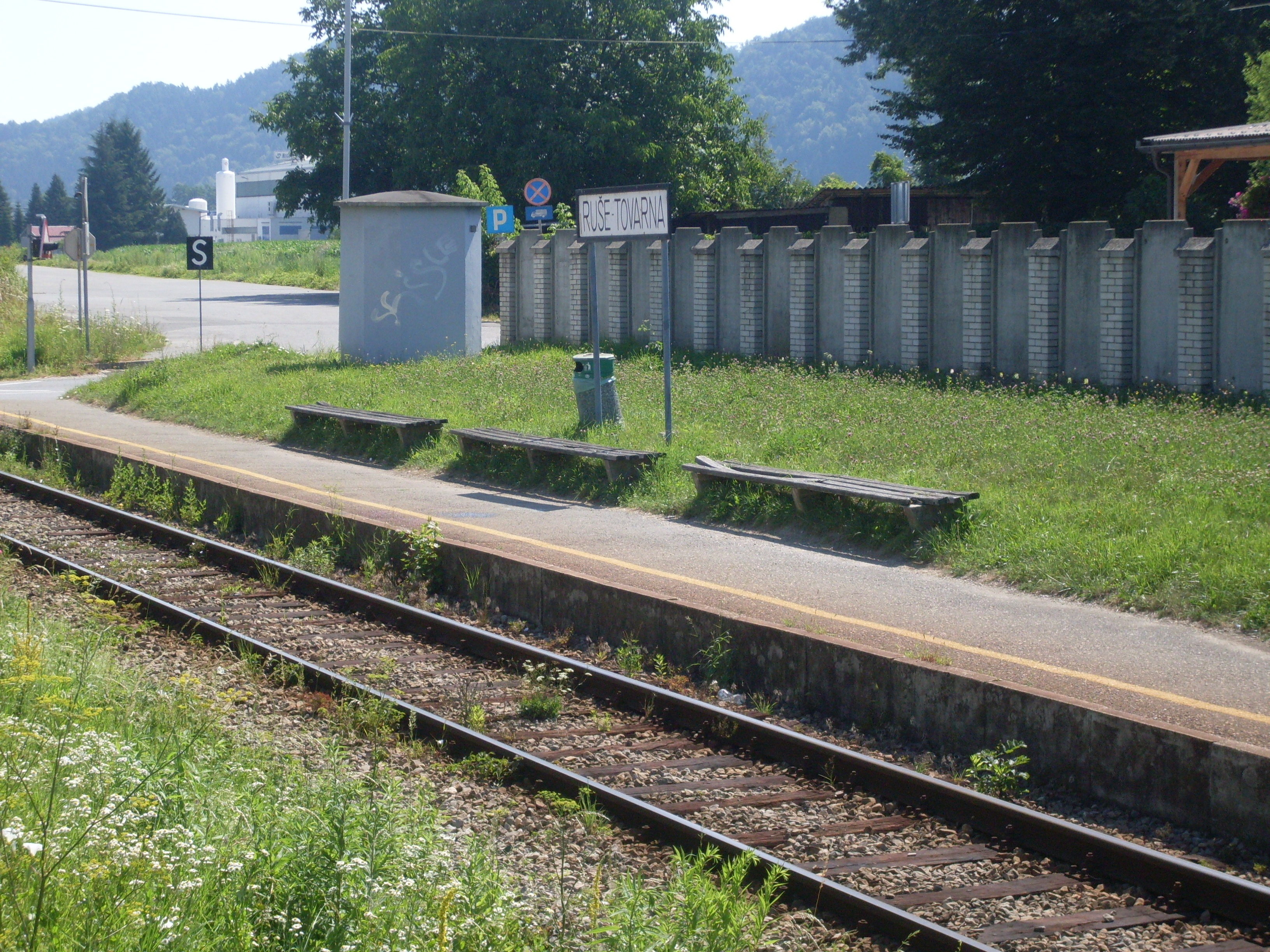 Railway halt Ruše tovarna in eastern part of Ruše, suitable for employees of the nearby TDR factory